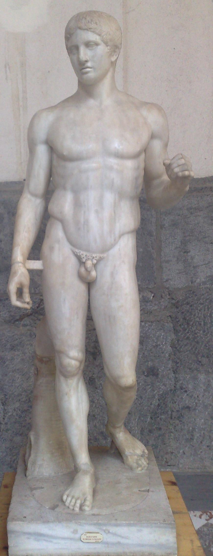 Statue of a young warrior carrying a spear. Roman copy of the Imperial era after a Greek original of the Late Classicism.